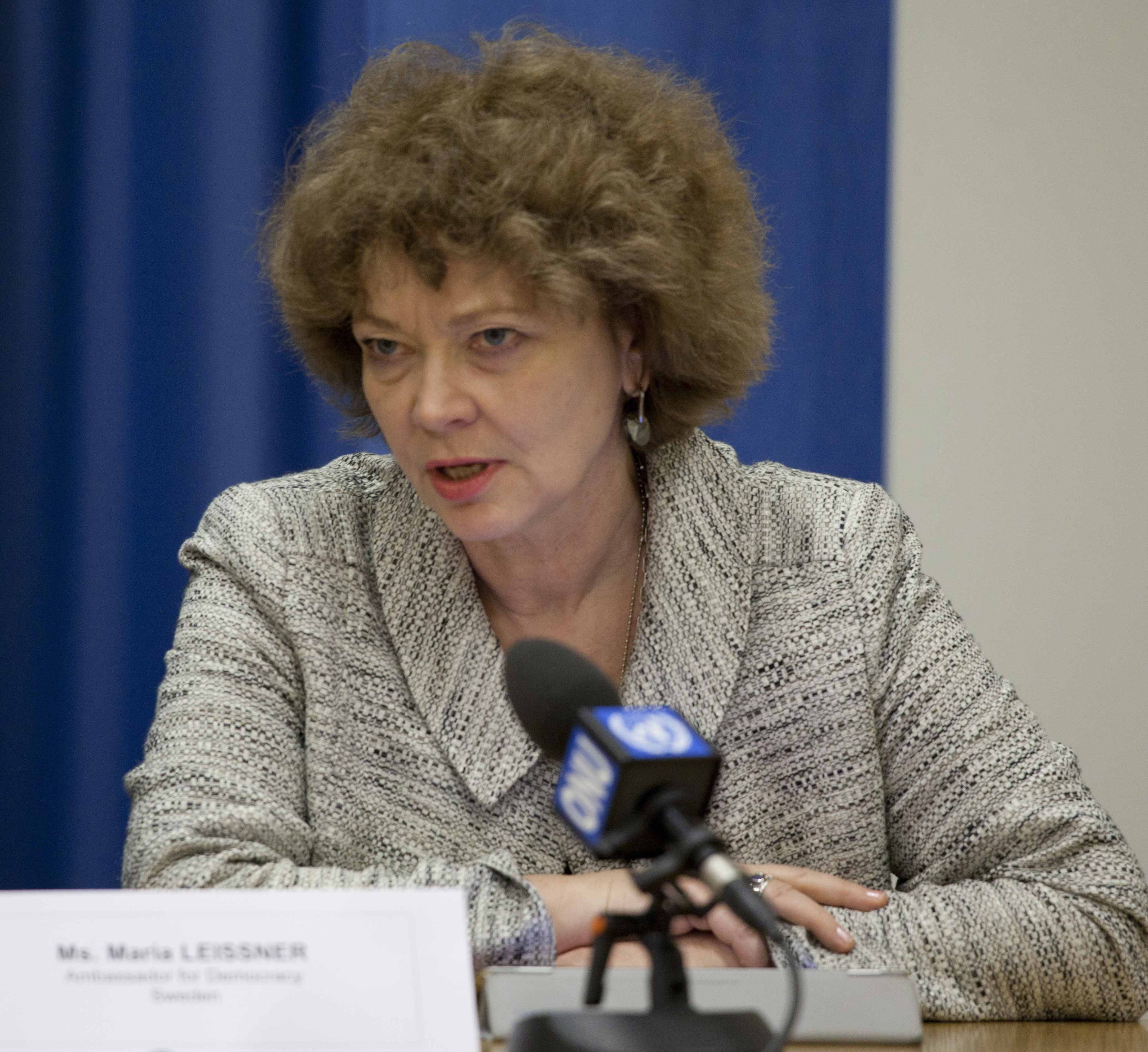 Press Briefing at the United Nations in Geneva on the Community of Democracies with: •Dr. Tomicah TILLEMANN, Senior Advisor for Civil Society and Emerging Democracies, Head of U.S. Delegation to the Community of Democracies meeting •Ms. Maria LEISSNER, Ambassador for Democracy, Sweden •Mr. Suren BADRAL, Ambassador-at-Large to the Community of Democracies, Mongolia The Community of Democracies governing council met March 1-2 in Geneva. U.S. Mission Photo by Eric Bridiers